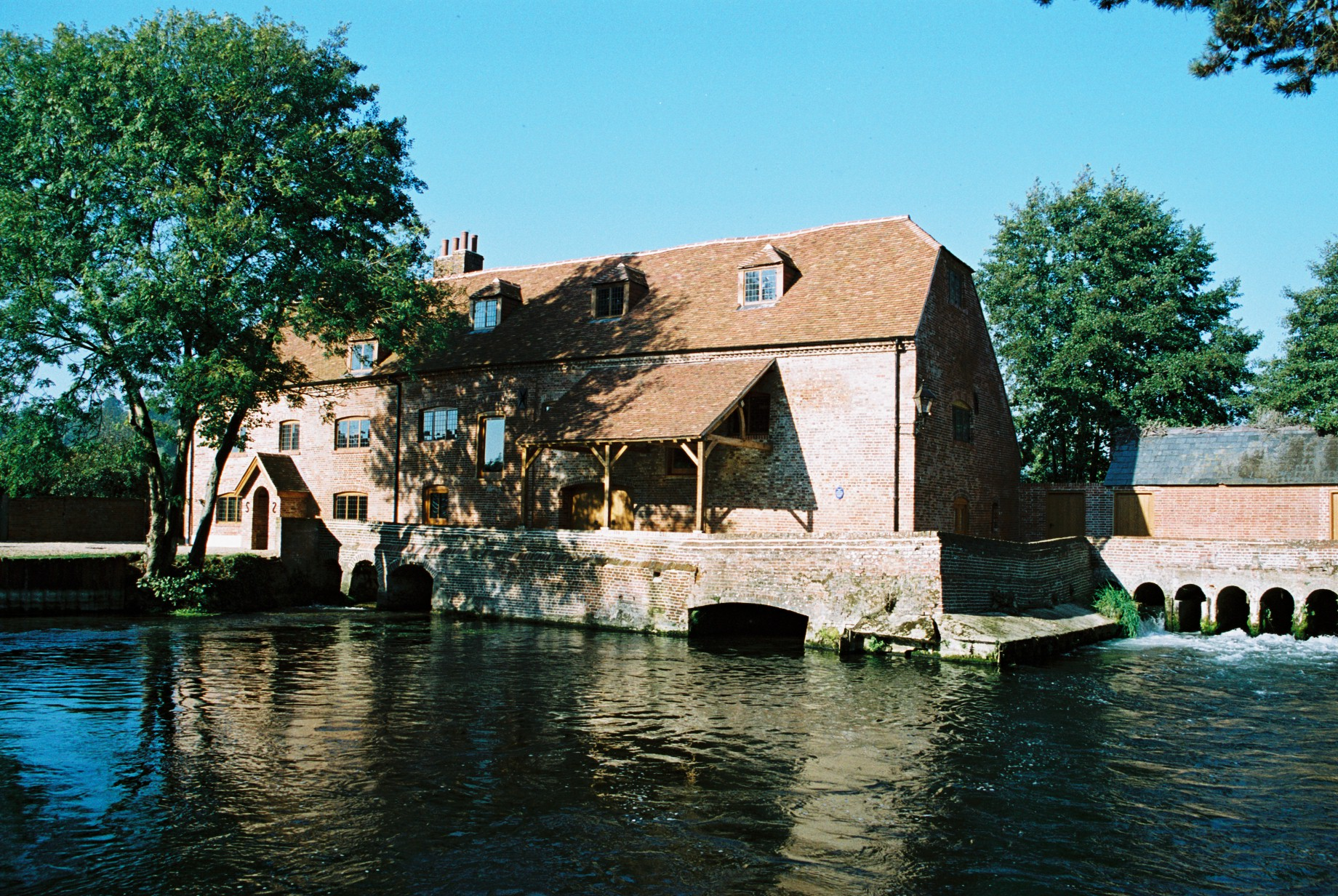 Sadler's Mill, Romsey, Hampshire, England South East Elevation Autumn 2005 Source: Anthony de Sigley